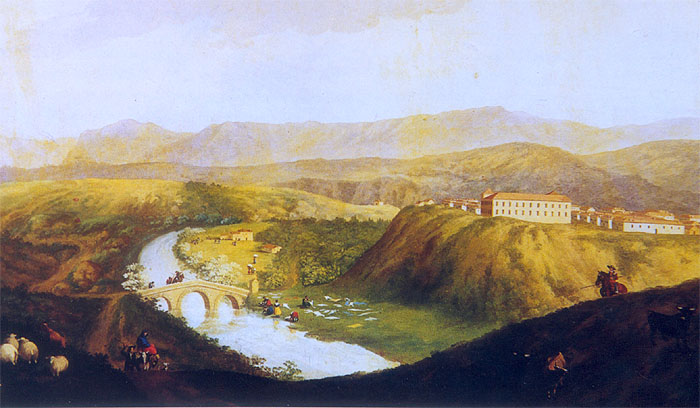 View of the Royal Palace of La Isabela, detail